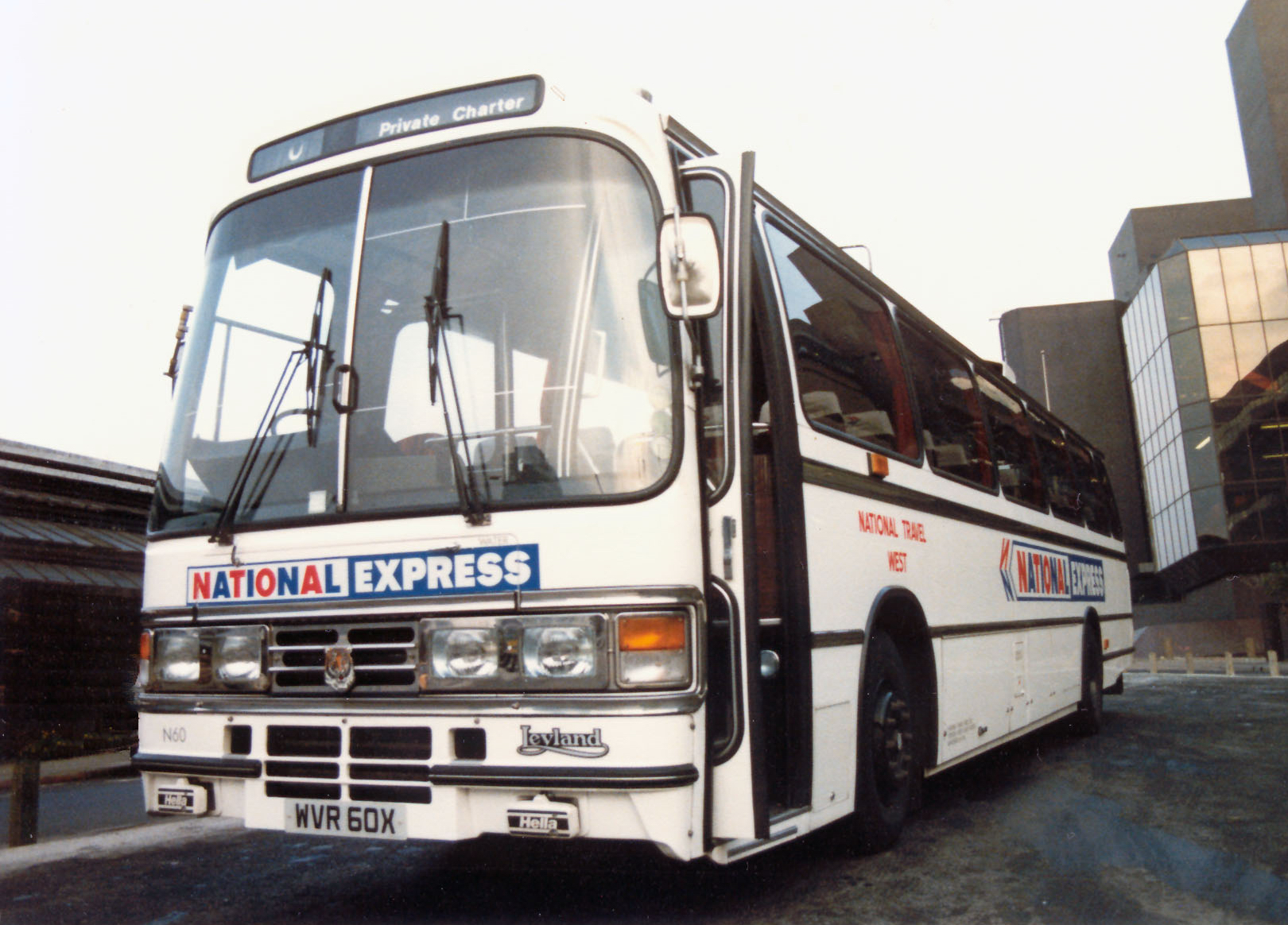 WVR60X a Leyland Tiger TRCTL11/3R with Duple Dominant C53F bodywork. New to National Travel (West) in July 1982. Photographed in Liverpool in 1982 by RXUYDC